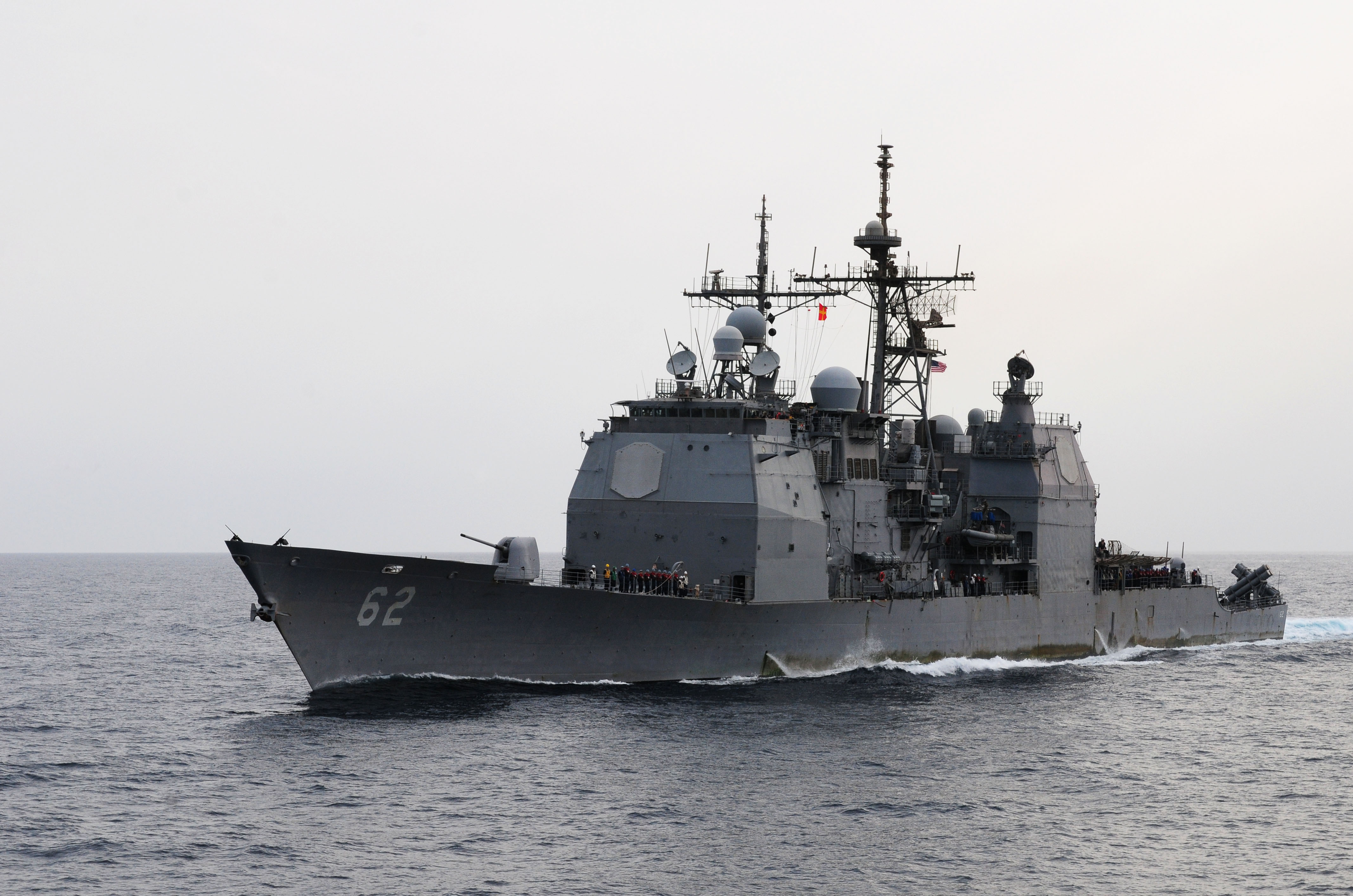 GULF OF ADEN (July 28, 2011) The guided-missile cruiser USS Chancellorsville (CG 62) transits alongside the aircraft carrier USS Ronald Reagan (CVN 76) for a fueling at sea. Ronald Reagan is conducting operations supporting maritime security operations and theater security cooperation efforts in the U.S. 5th Fleet area of responsibility. (U.S. Navy photo by Mass Communication Specialist 2nd Class Dylan McCord/Released)